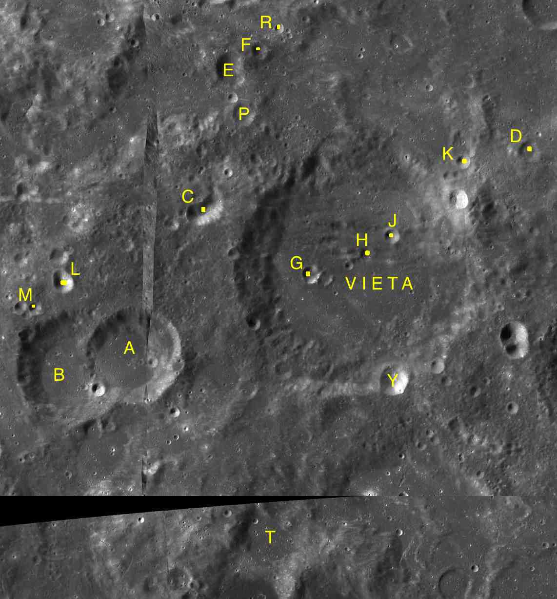 Parts of the charts LAC-92, LAC-110 used for the presentation